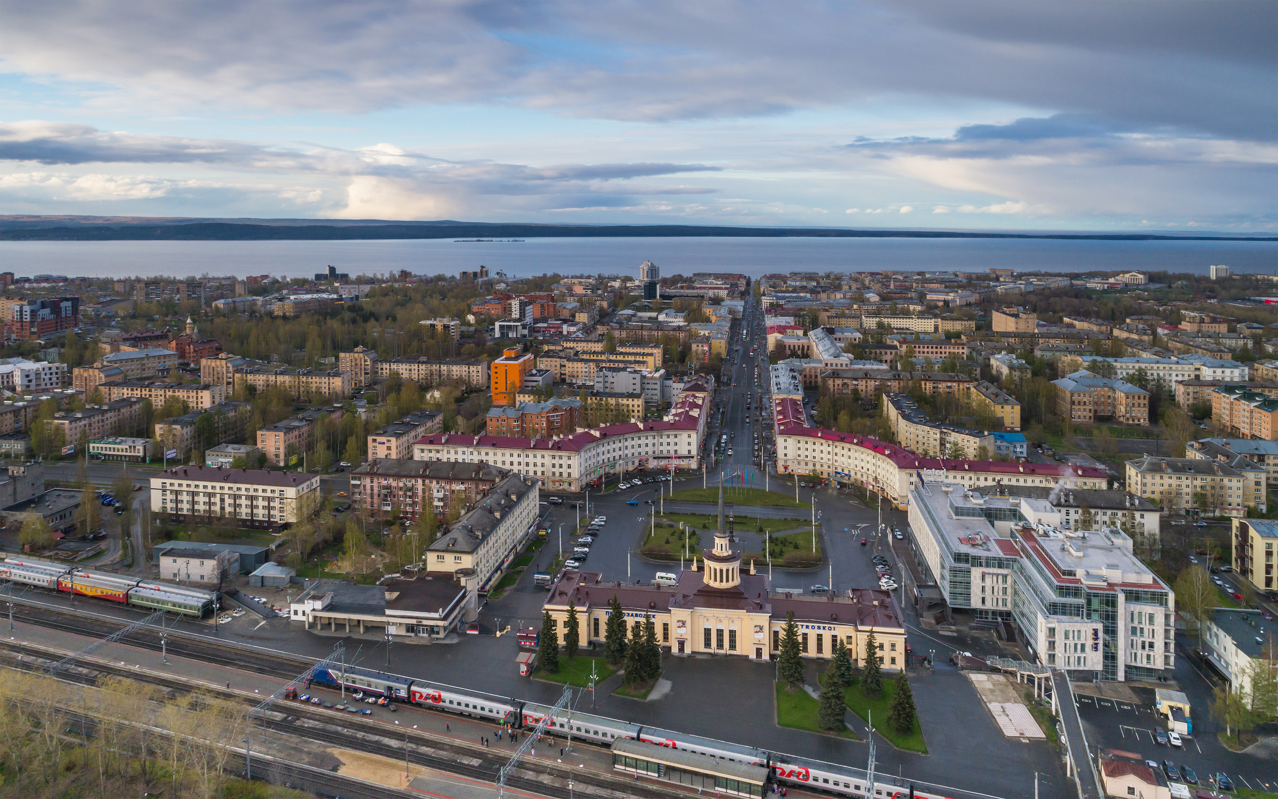 Main railway station (aerial photo) in Petrozavodsk, Republic of Karelia (Russia).